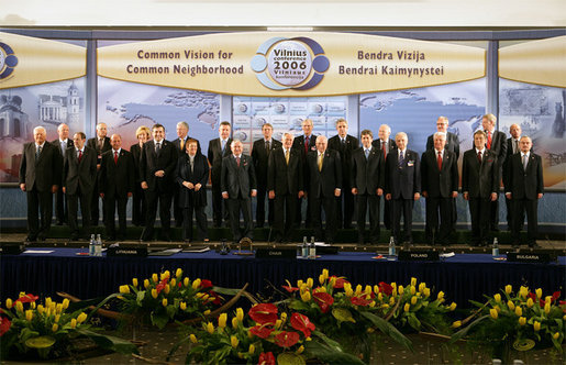 Family photo of the heads of delegations at Vilnius Conference 2006: Common Vission for Common Neighborhood.